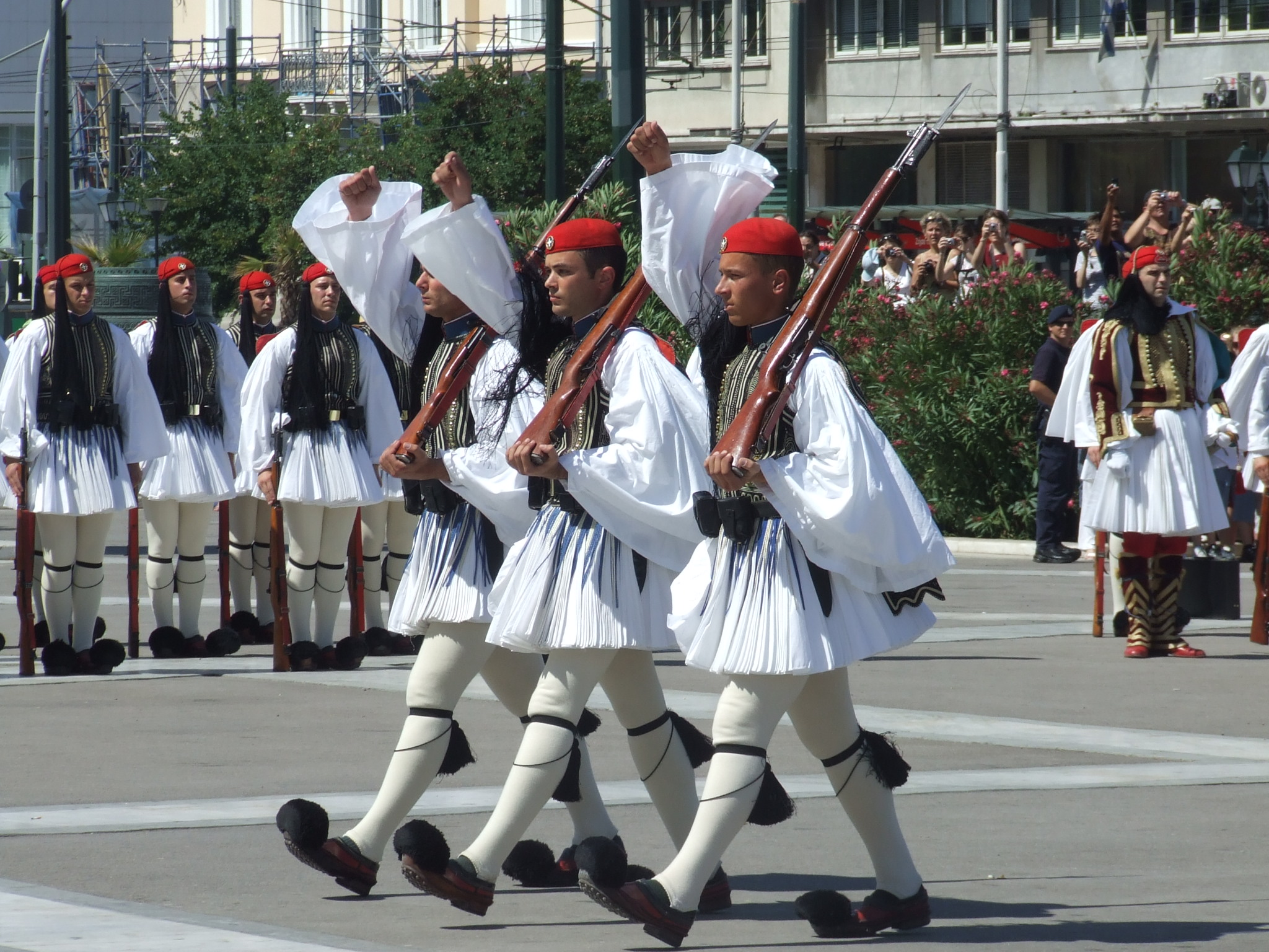 Changing of the guard at the Tomb of the Unknown Soldier, Syntagma Square, Greece